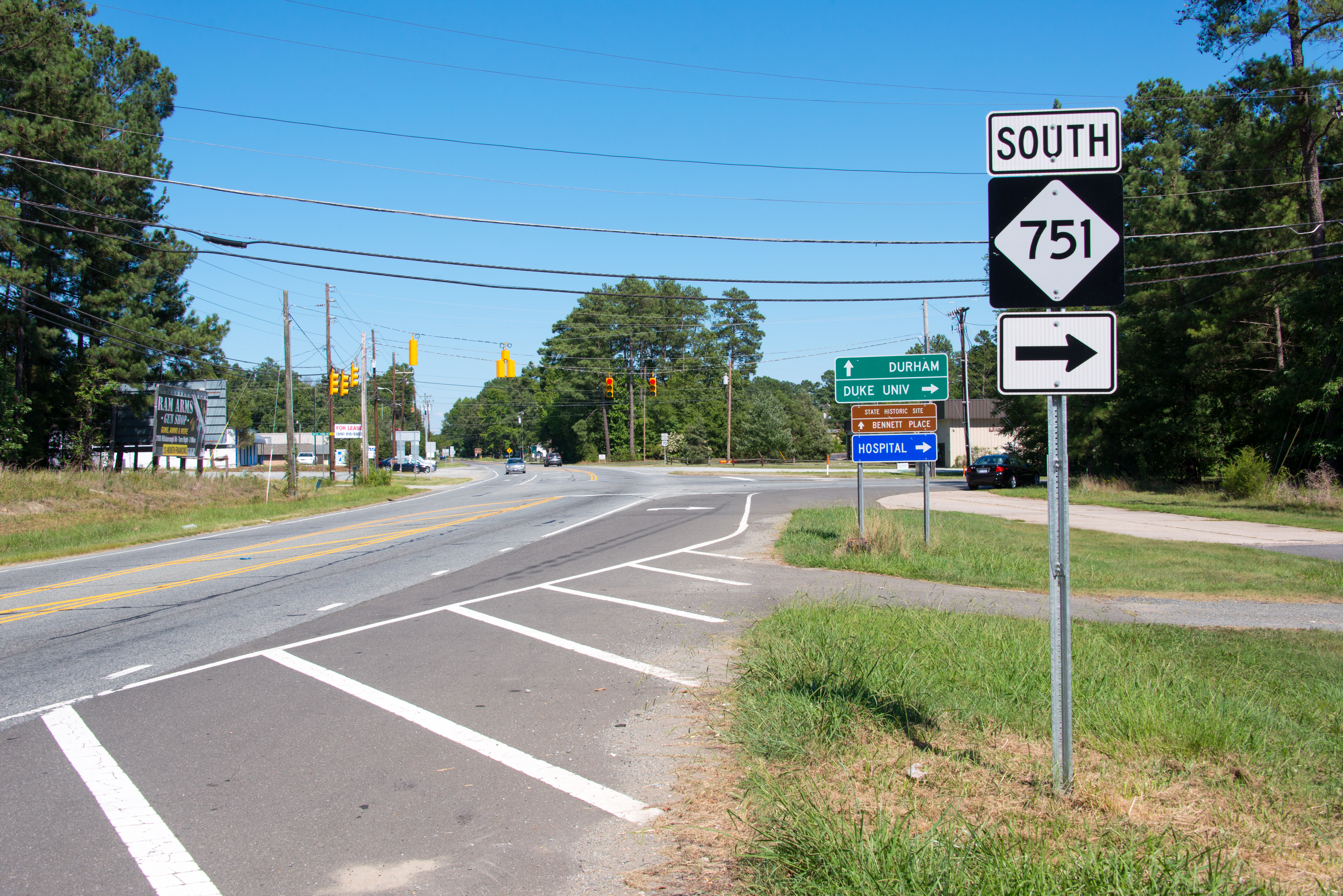 Northern terminus of NC 751 at US 70 Business, just outside of Durham, North Carolina. Remnant of Old NC 10 on right.